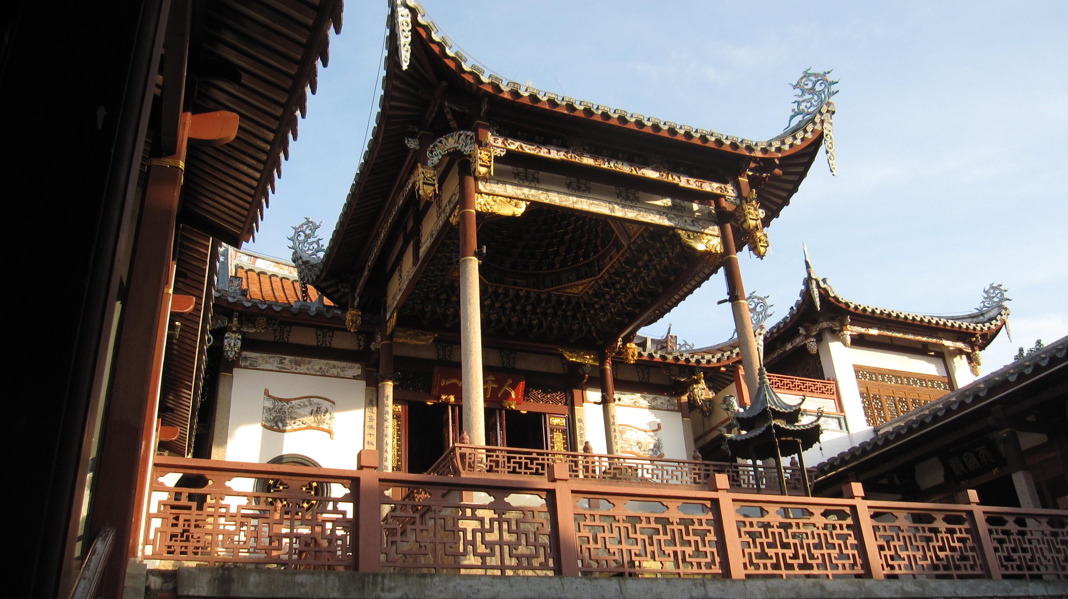 Jade Emperor's Pavilion Main Prayer Hall